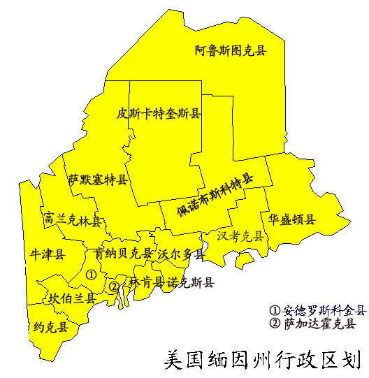 Administrative map of Maine in Chinese